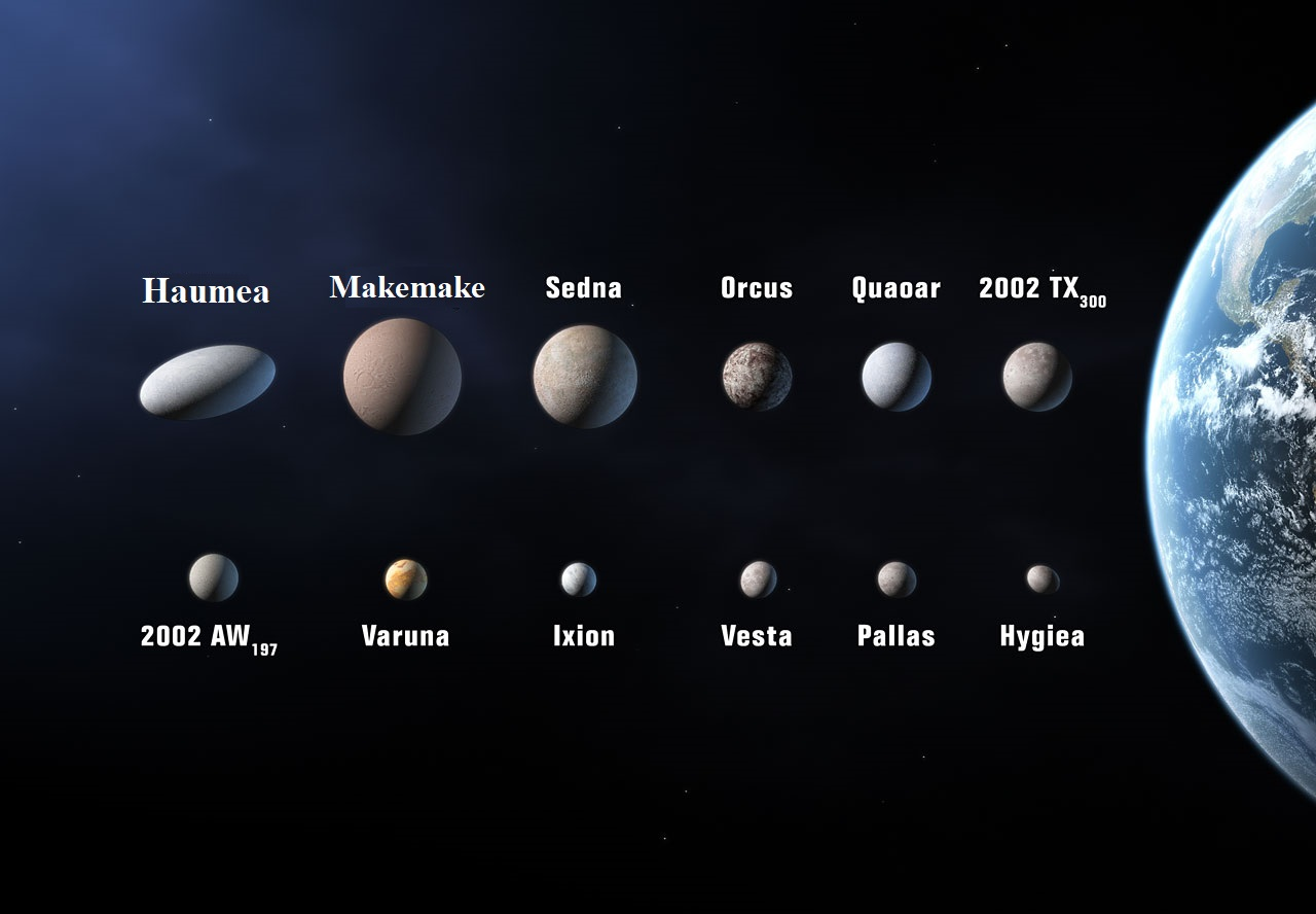 List of 12 Planet candidates per the IAU 2006 draft proposal XXVI (See the discussion page for copyright release by the creator.) The listed planetoids: Haumea (2003 EL61) and Makemake (2005 FY9) have already been promoted to dwarf planet status. Still pending candidates from this image are: Sedna, Orcus, Quaoar, 2002 TX300, 2002 AW197, Varuna, Ixion, Vesta, Pallas, Hygiea